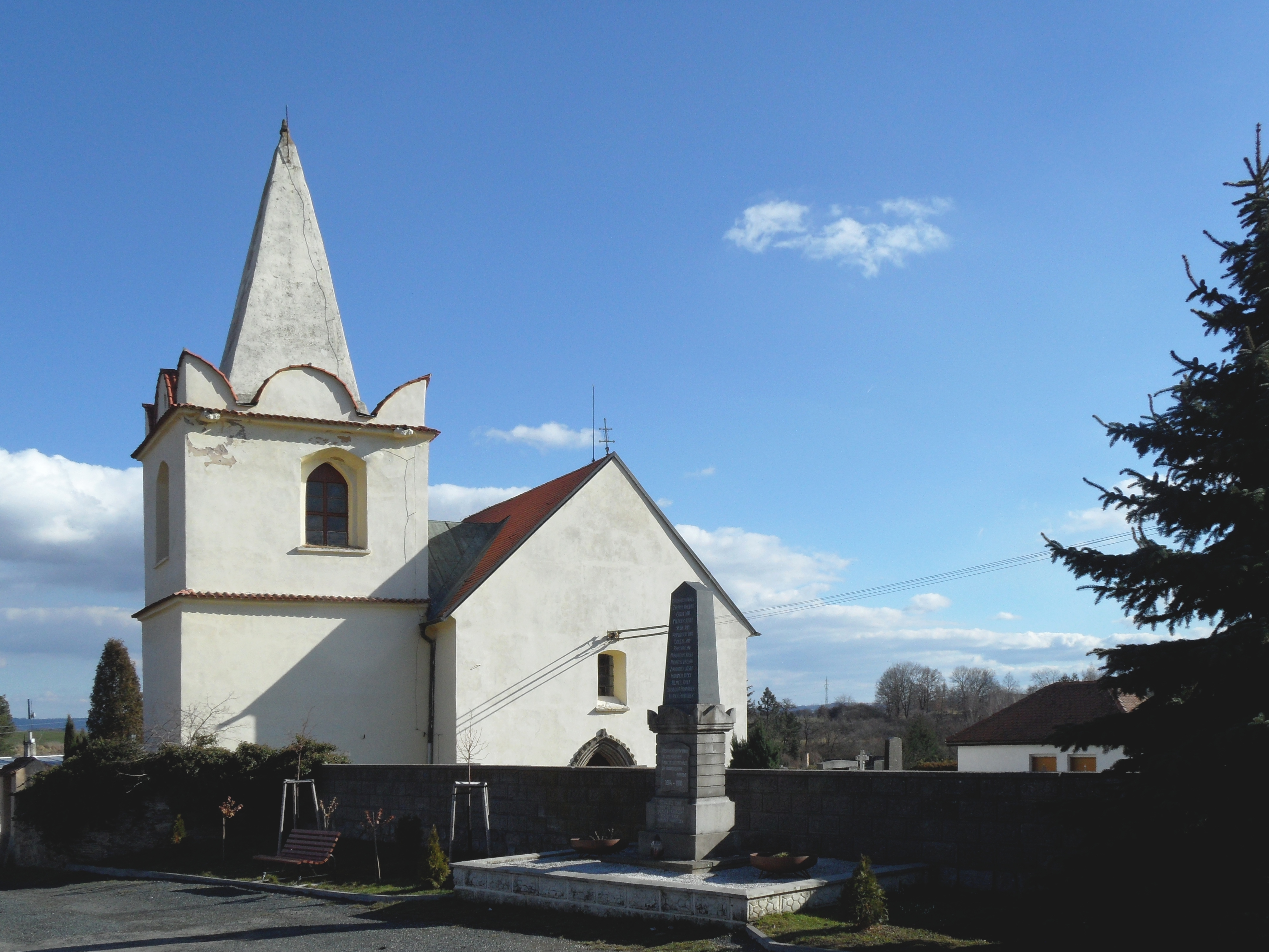 Okřesaneč B. Church of St. Bartholomew and Memorial of Victims of WW1, Kutná Hora District, the Czech Republic.